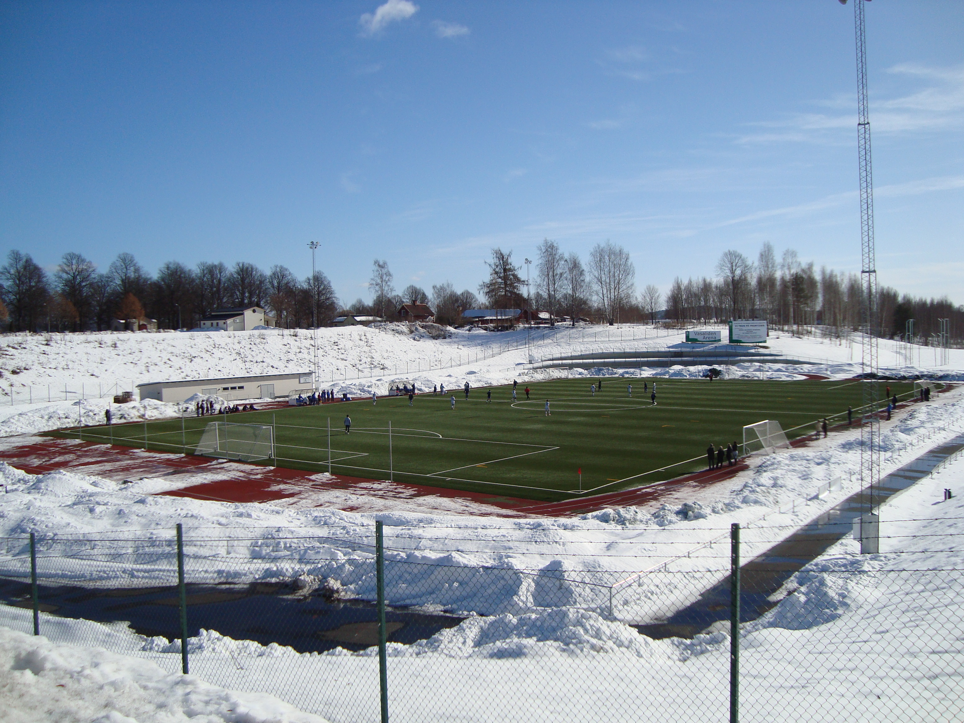 Vasaliden Arena, Hedemora, Sweden